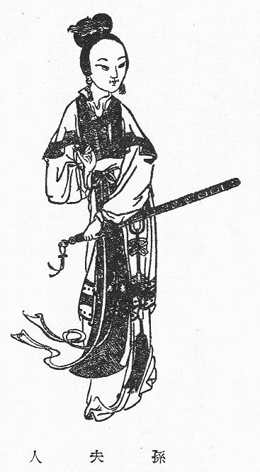 Portrait of lady Sun Shangxiang from a Qing Dynasty edition of The Romance of the Three Kingdoms.